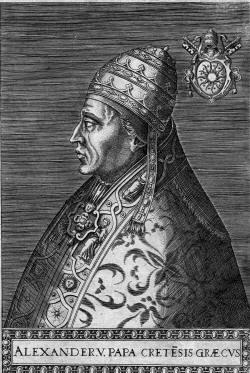 Antipope Alexander V (1409-1410), Peter Of Candia, Italian Pietro Di Candia, original Greek name Petros Philargos, born c. 1339, Candia, Crete died May 3, 1410, Bologna, Papal States.